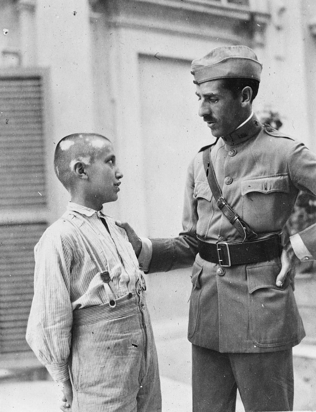 Title Capt. Harold W. Parsons, of Boston, American Red Cross Created / Published January 1919 [date received] Subject Headings - American Red Cross Format Headings Glass negatives. Genre Glass negatives Notes - Title, date and notes from Red Cross caption card. - Photographer name or source of original from caption card or negative sleeve: ARC. Commission to Italy. - Group title: Personnel. - On caption card: Ms-1567. - Gift; American National Red Cross 1944 and 1952. - General information about the American National Red Cross photograph collection is available at - Temp note: Batch 20 Medium 1 negative : glass ; 5 x 7 in. Call Number/Physical Location LC-A6196- 40070 [P&P] Source Collection American National Red Cross photograph collection (Library of Congress) Repository Library of Congress Prints and Photographs Division Washington, D.C. 20540 USA Digital Id anrc 09674 //hdl.loc.gov/loc.pnp/anrc.09674 Library of Congress Control Number 2017675442 Reproduction Number LC-DIG-anrc-09674 (digital file from original) Rights Advisory No known restrictions on publication. For information, see "American National Red Cross photograph collection," Online Format image Description 1 negative : glass ; 5 x 7 in. LCCN Permalink Additional Metadata Formats MARCXML Record MODS Record Dublin Core Record